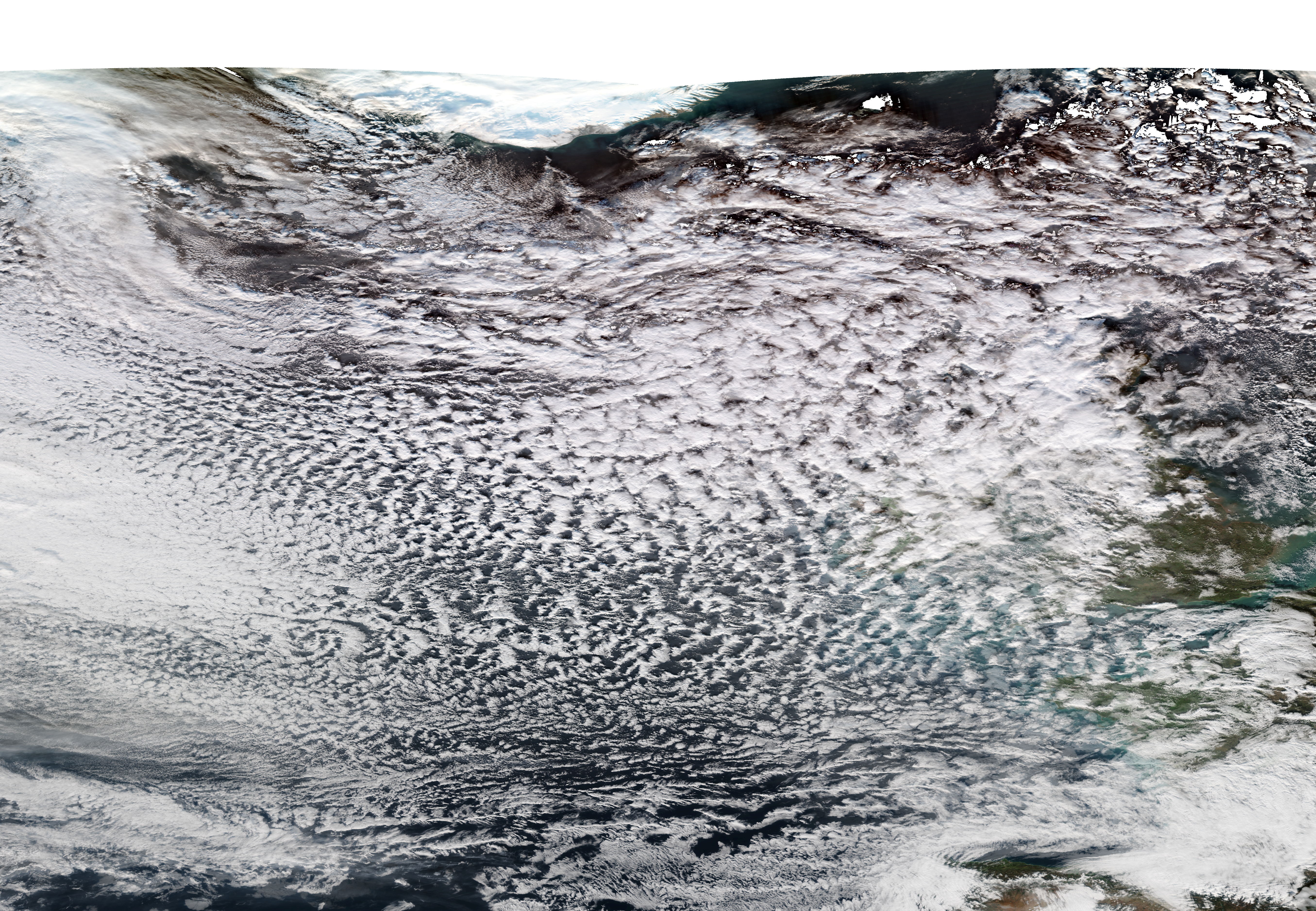 Storm Fionn of the 2017–18 UK and Ireland windstorm season on 16 January 2018.